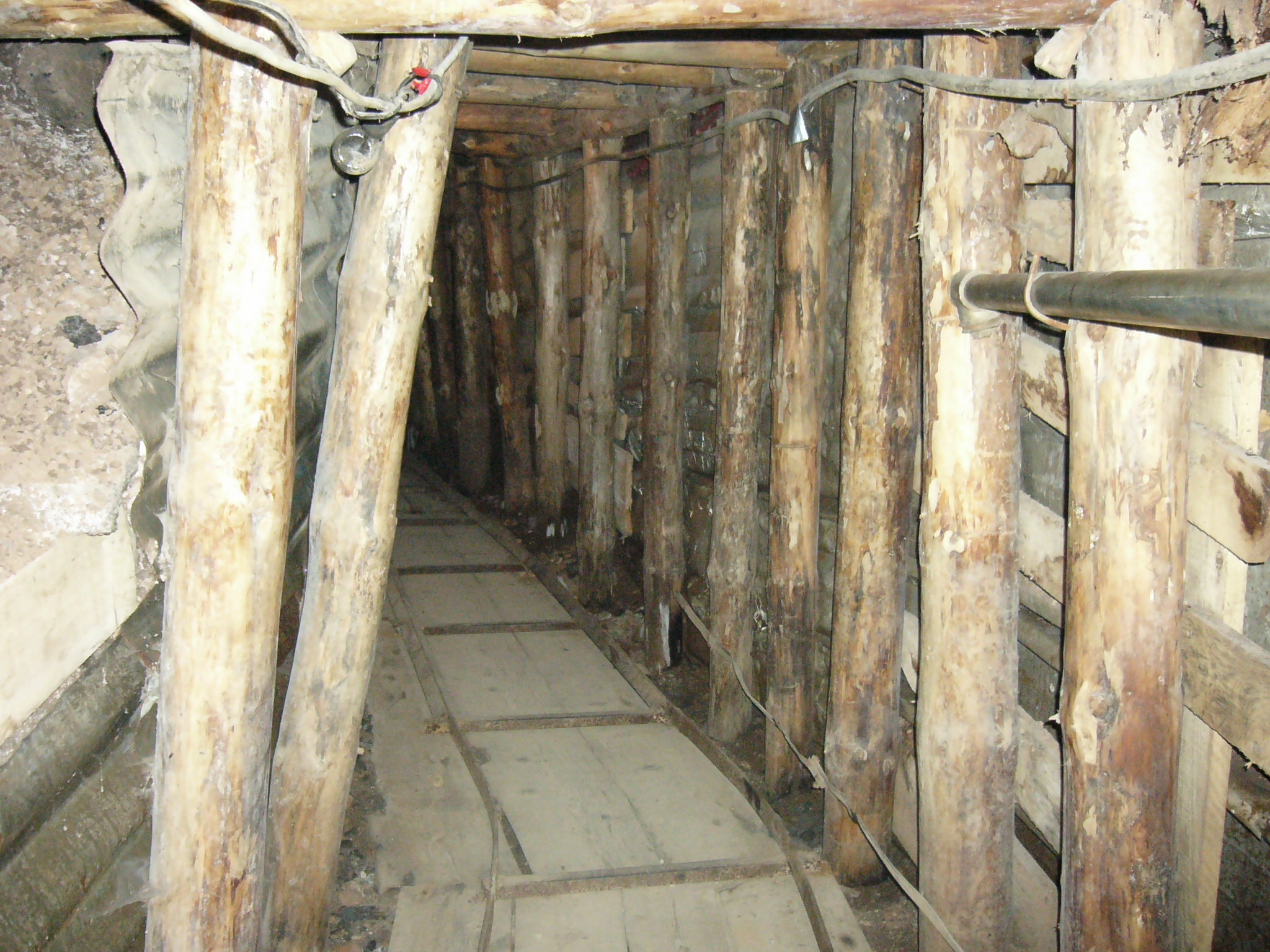 This tunnel is what helped the Bosnians survive during the siege of Sarajevo